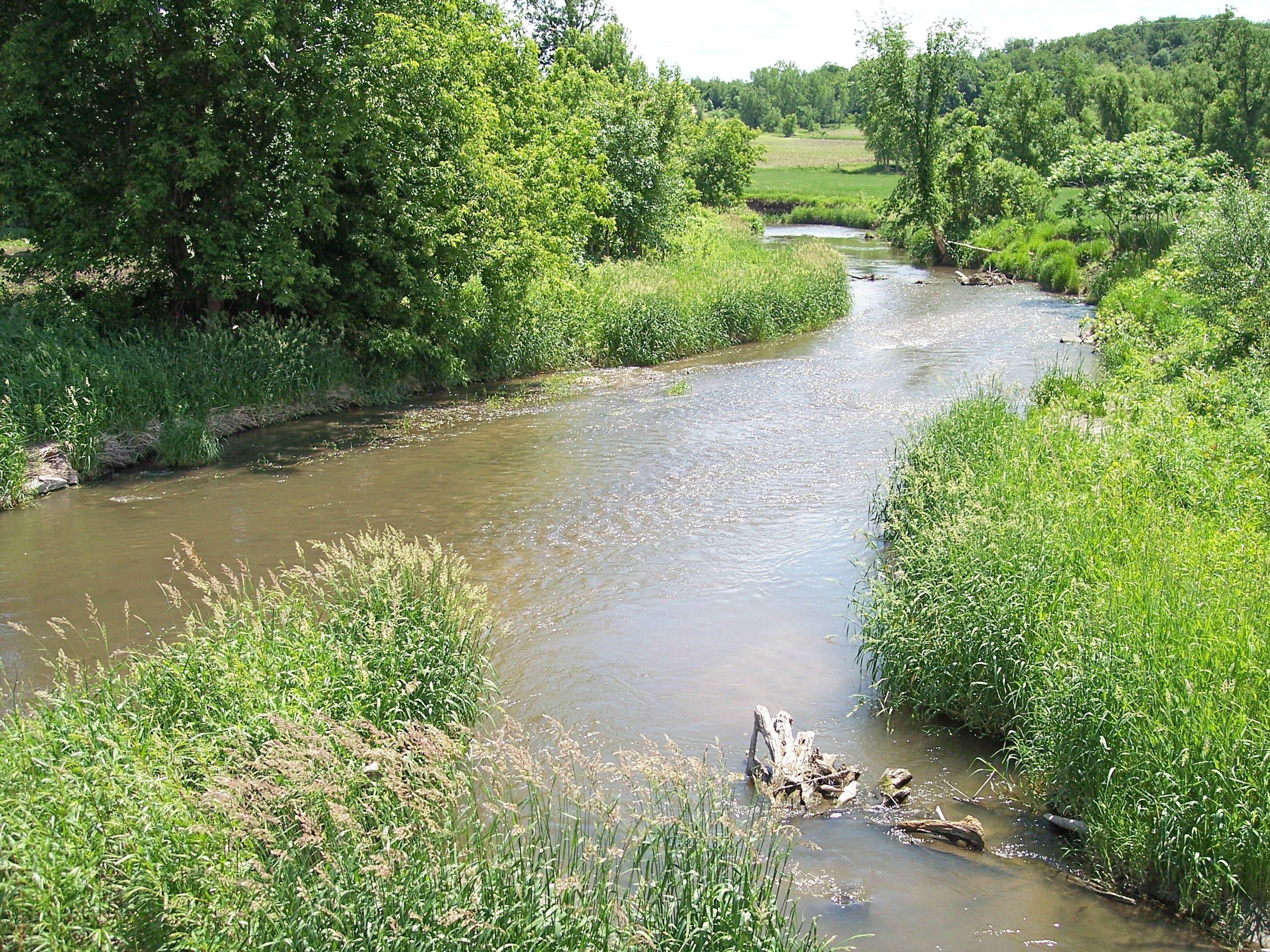 The Little Cottonwood River in Cambria Township, Minnesota, as viewed downstream from Township Road 34